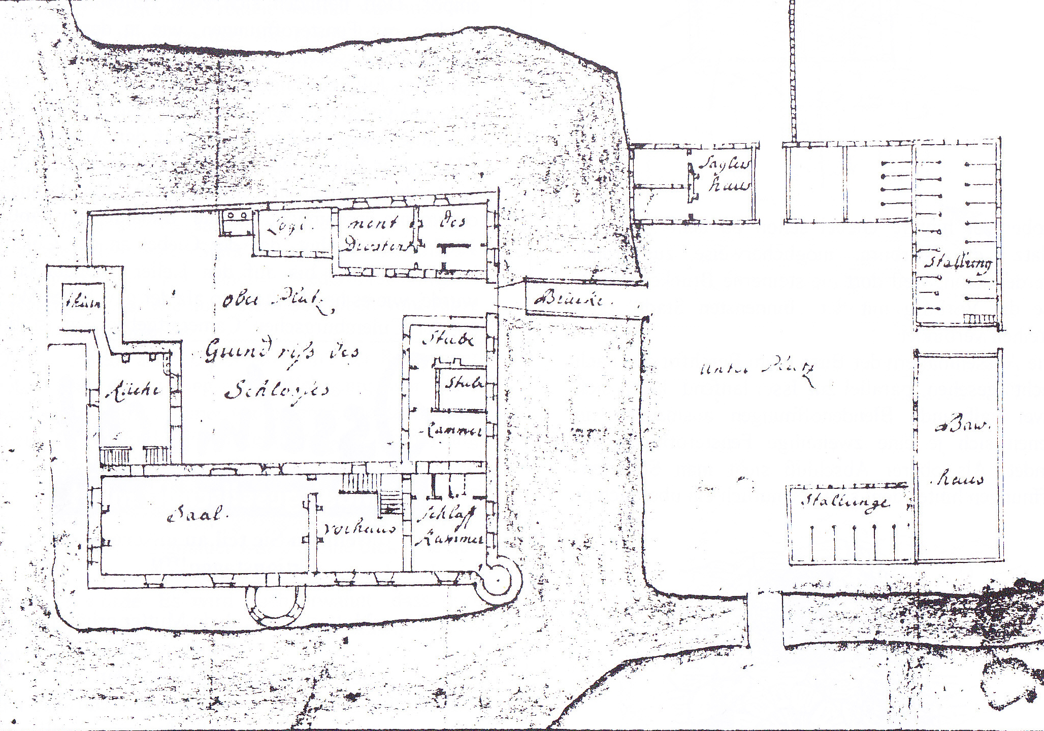 Ground plan of castle Werth Westphalia 1740